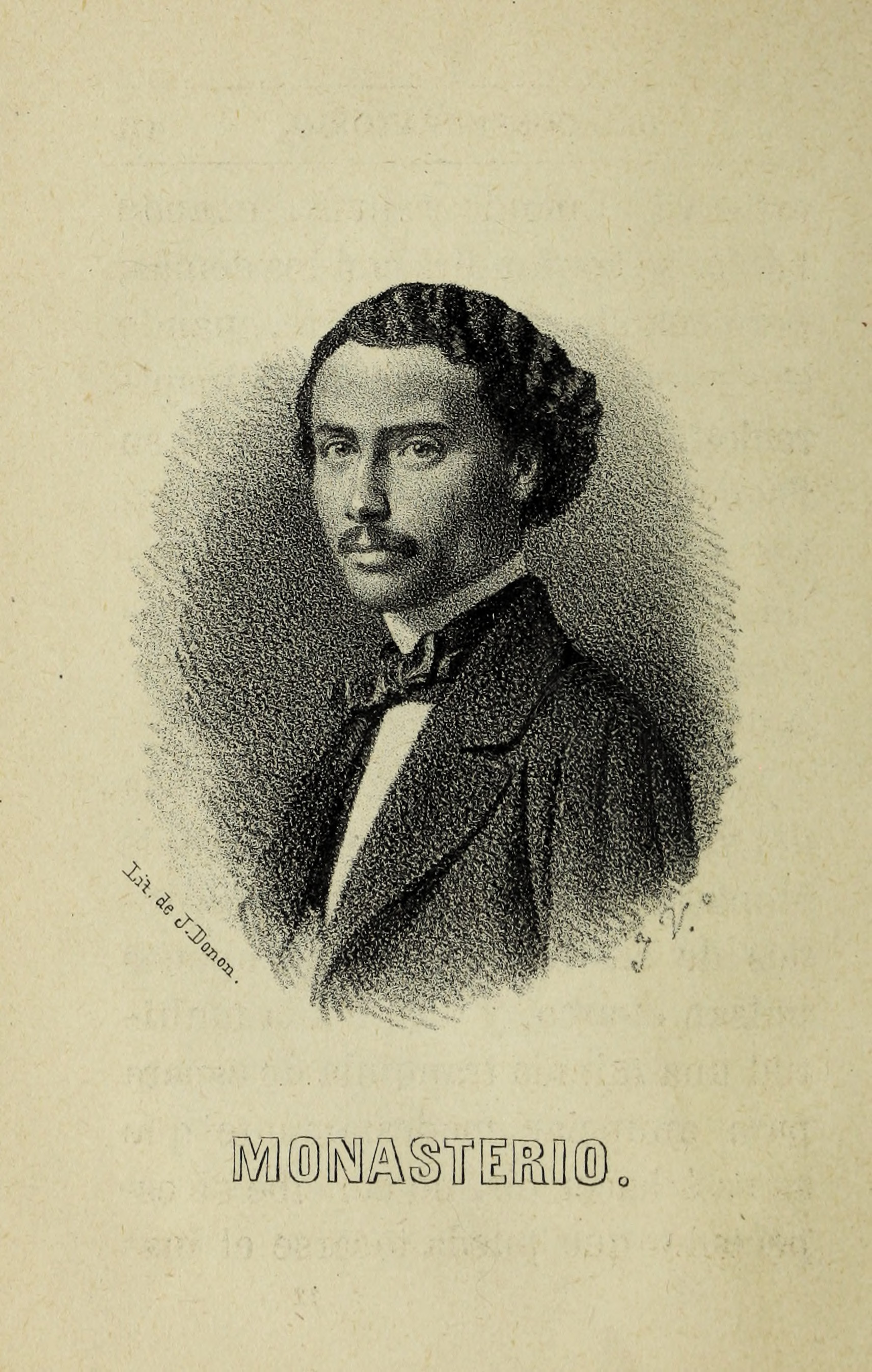 Illustration found on José de Castro y Serrano's book entitled Los Cuartetos del Conservatorio : breves consideraciones sobre la música clásica.